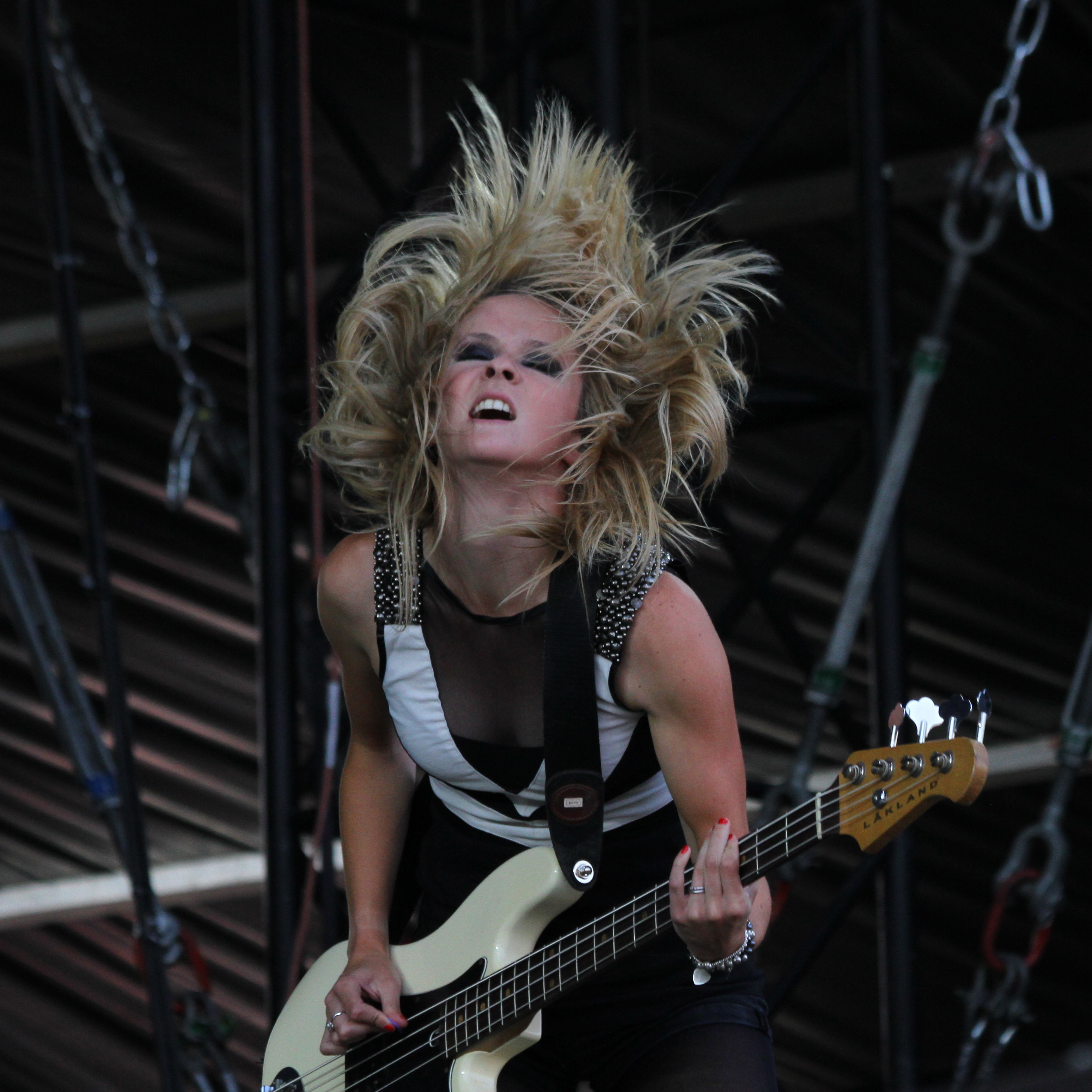 Posted via email from Globalite Magazine